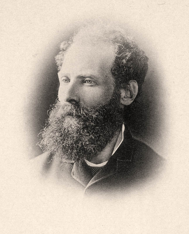 Picture of Antero de Quental, ca. 1887. Published in Antero de Quental. In Memoriam, Lisboa 1896.